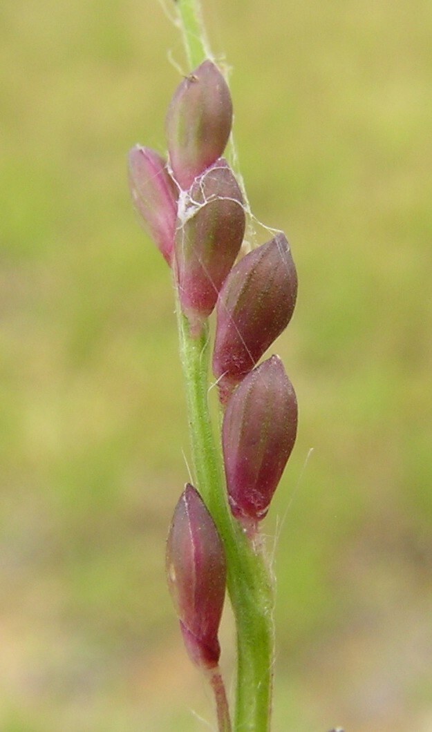 Flowerheads are a narrow primary axis of racemes (4-20 cm long); with the racemes pressed against the main stem. Spikelets are 2.5-3.8 mm long, oblong, unawned and 2-flowered; with a hairy fertile floret which is shorter than the upper glume and lower lemma by up to 1 mm.